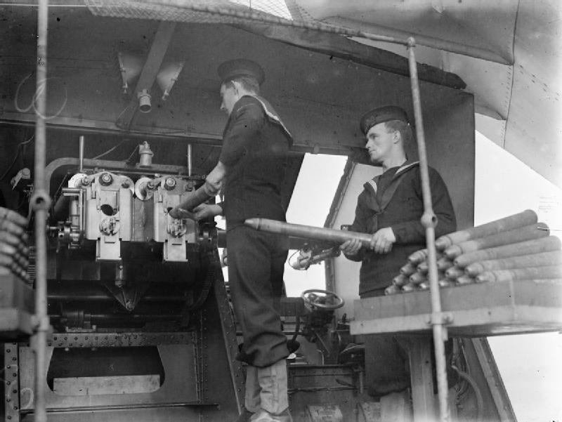 IWM caption : "Crew members loading the 6-pounder gun mark I in twin mark I turret on board HMS MACKAY whilst she is at Harwich." Comment : The guns are QF 6 pounder 10 cwt.